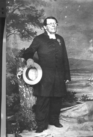 Johan Anders Linder from Umea